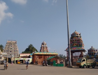 மகாமகக்குள மண்டபங்கள் Mahamaham Tank mandapas